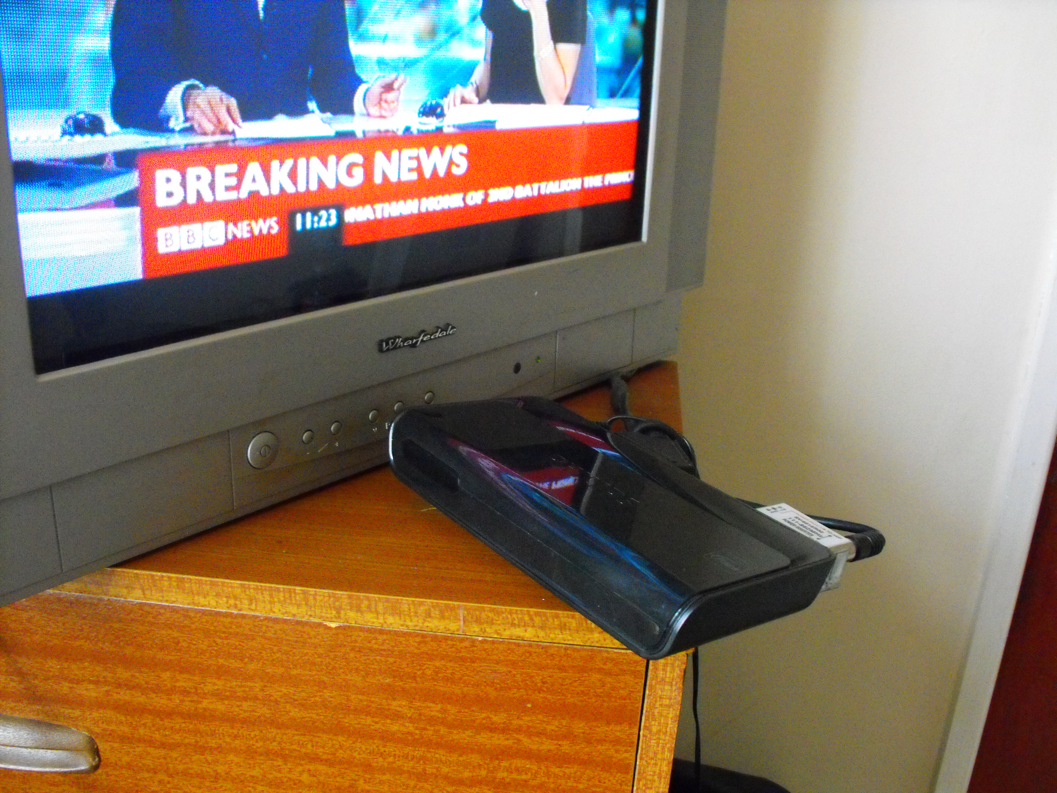 FREEVIEW BOX